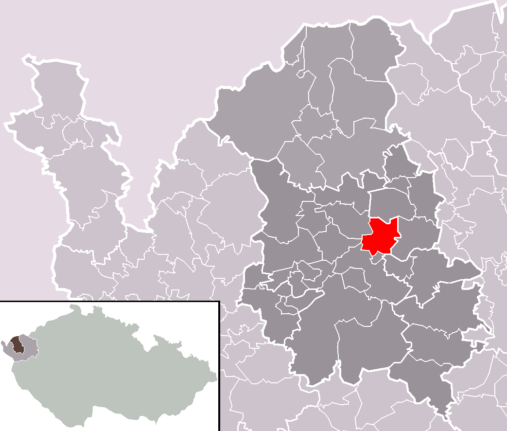 Location of Královské Poříčí municipality within Sokolov District and administrative area of Sokolov as a Municipality with Extended Competence.